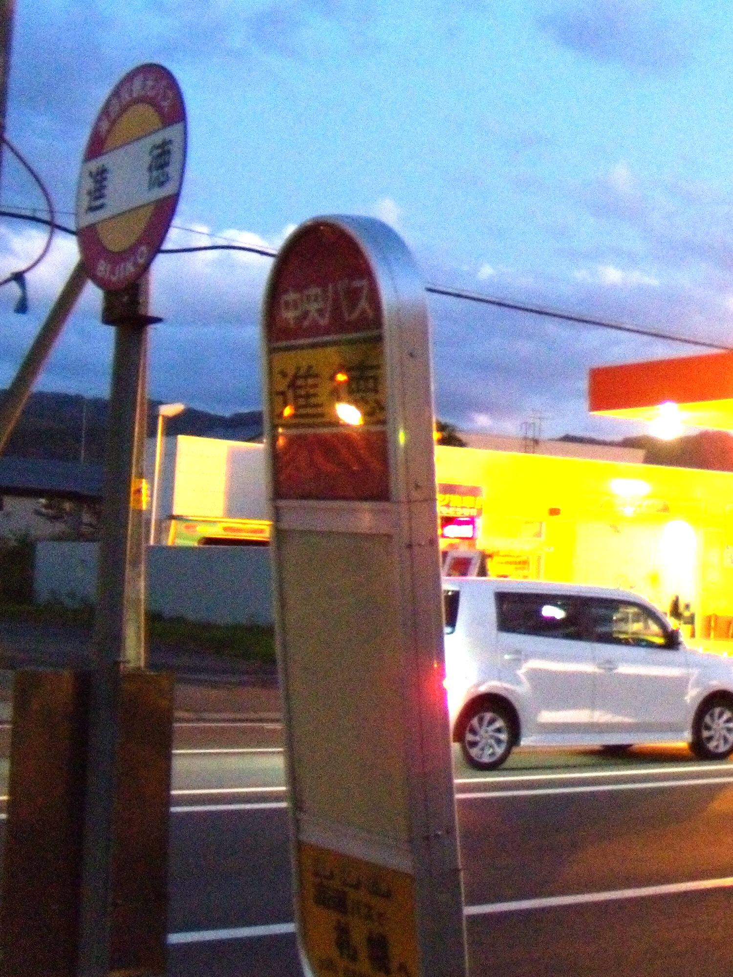 Hokkaido Chuo Bus and Bibai Driving School Shintoku Bus Stop in Bibai City, Hokkaido, Japan)